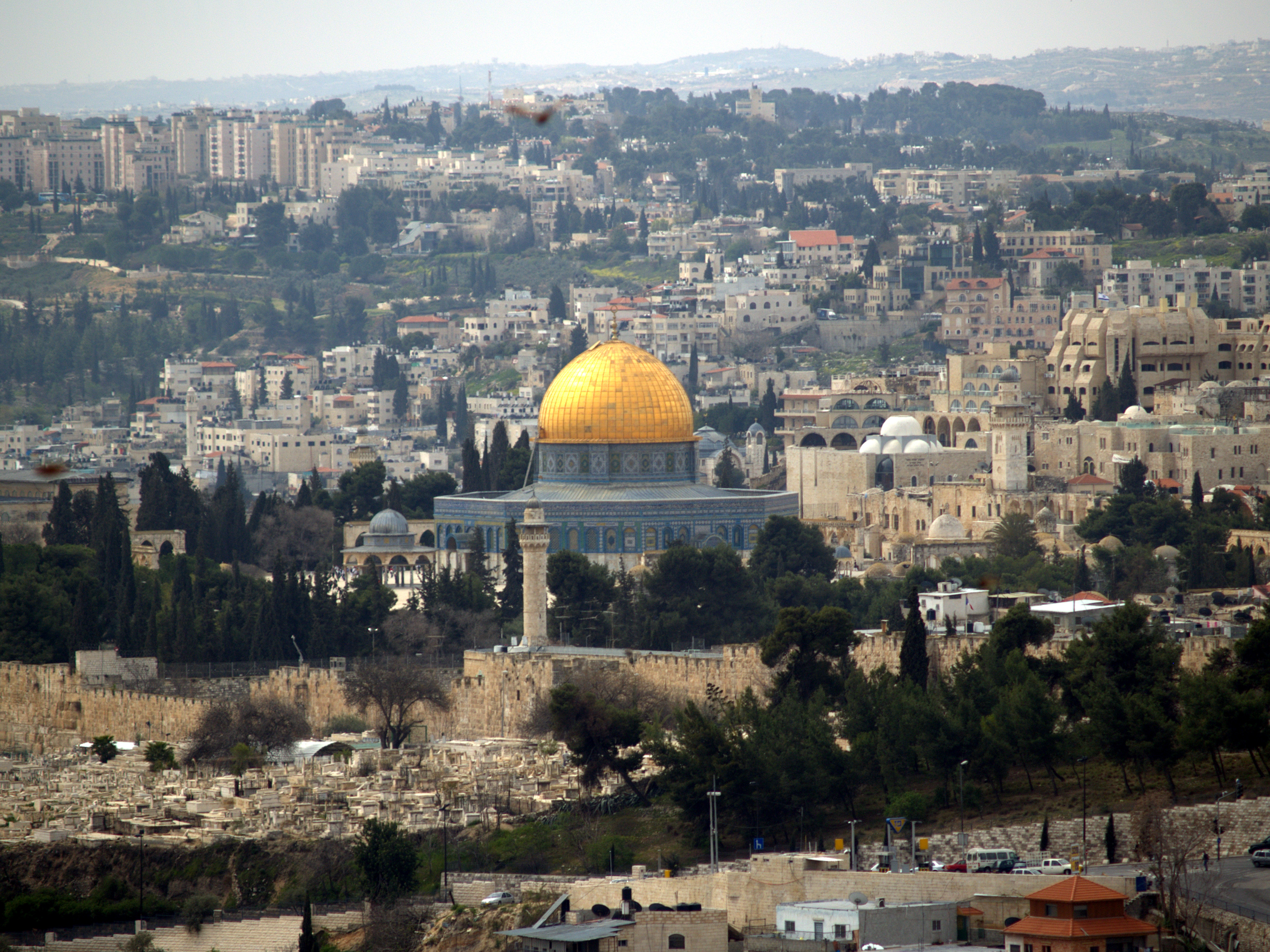 A view of the Temple Mount in Jerusalem.